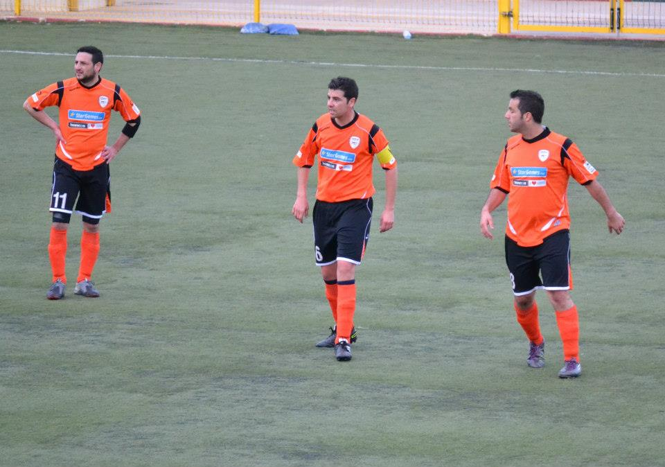 This file contains the SUFC team in action